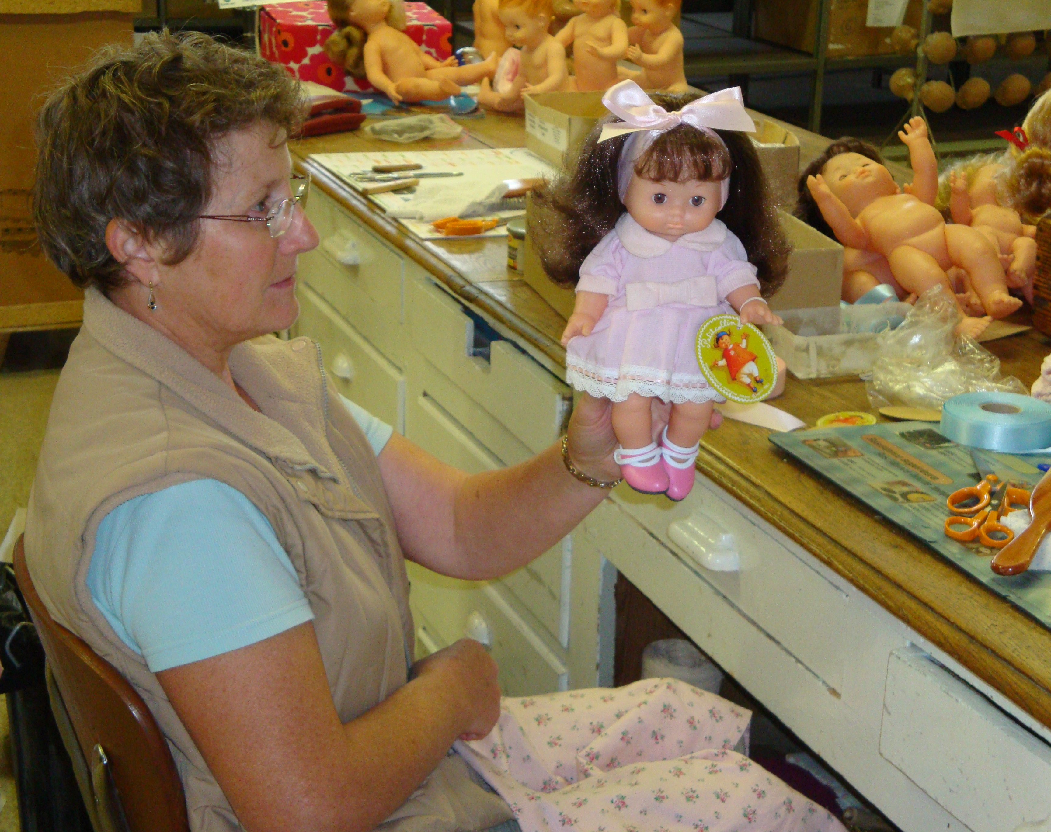 creative common